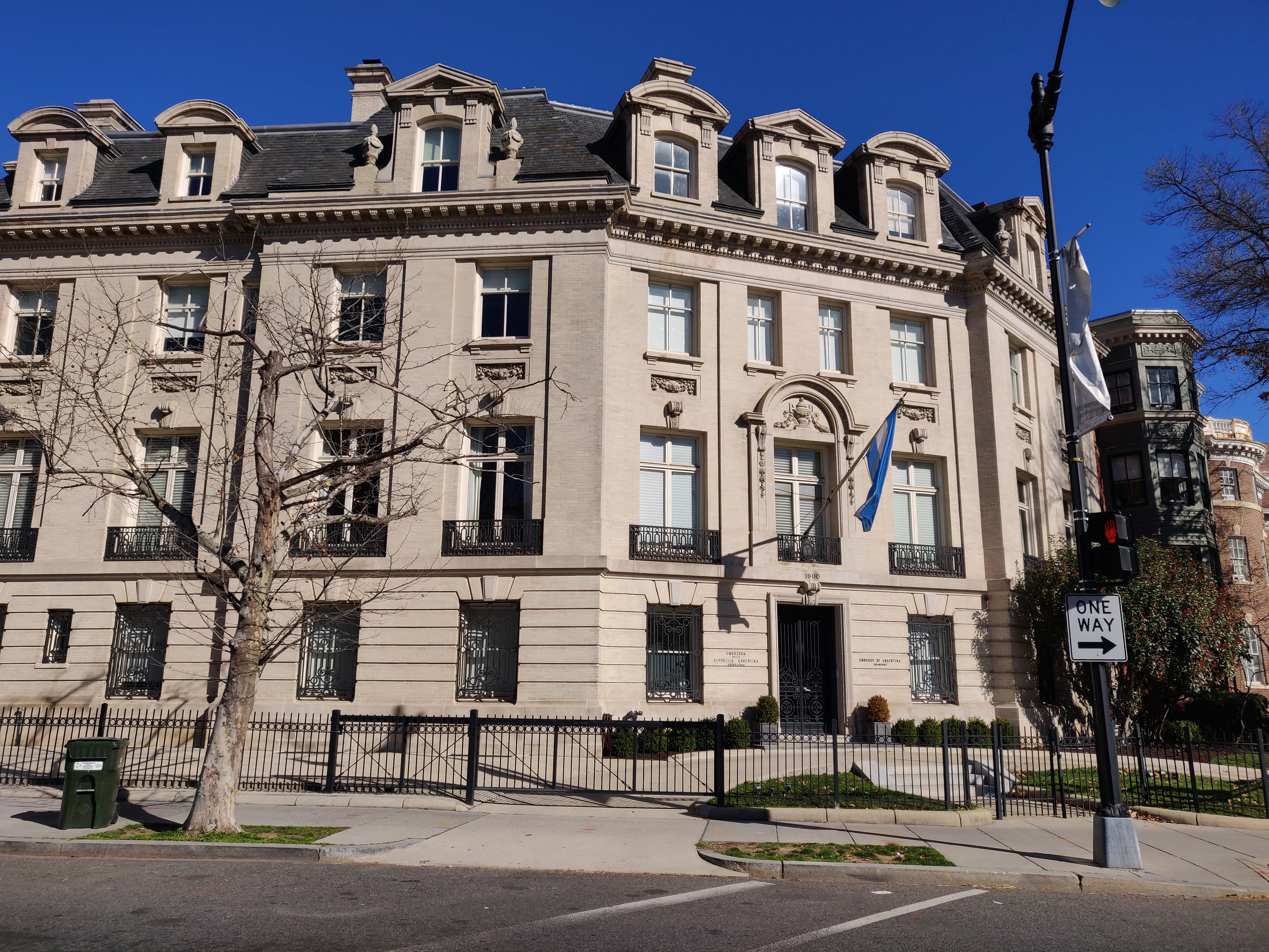 embassy